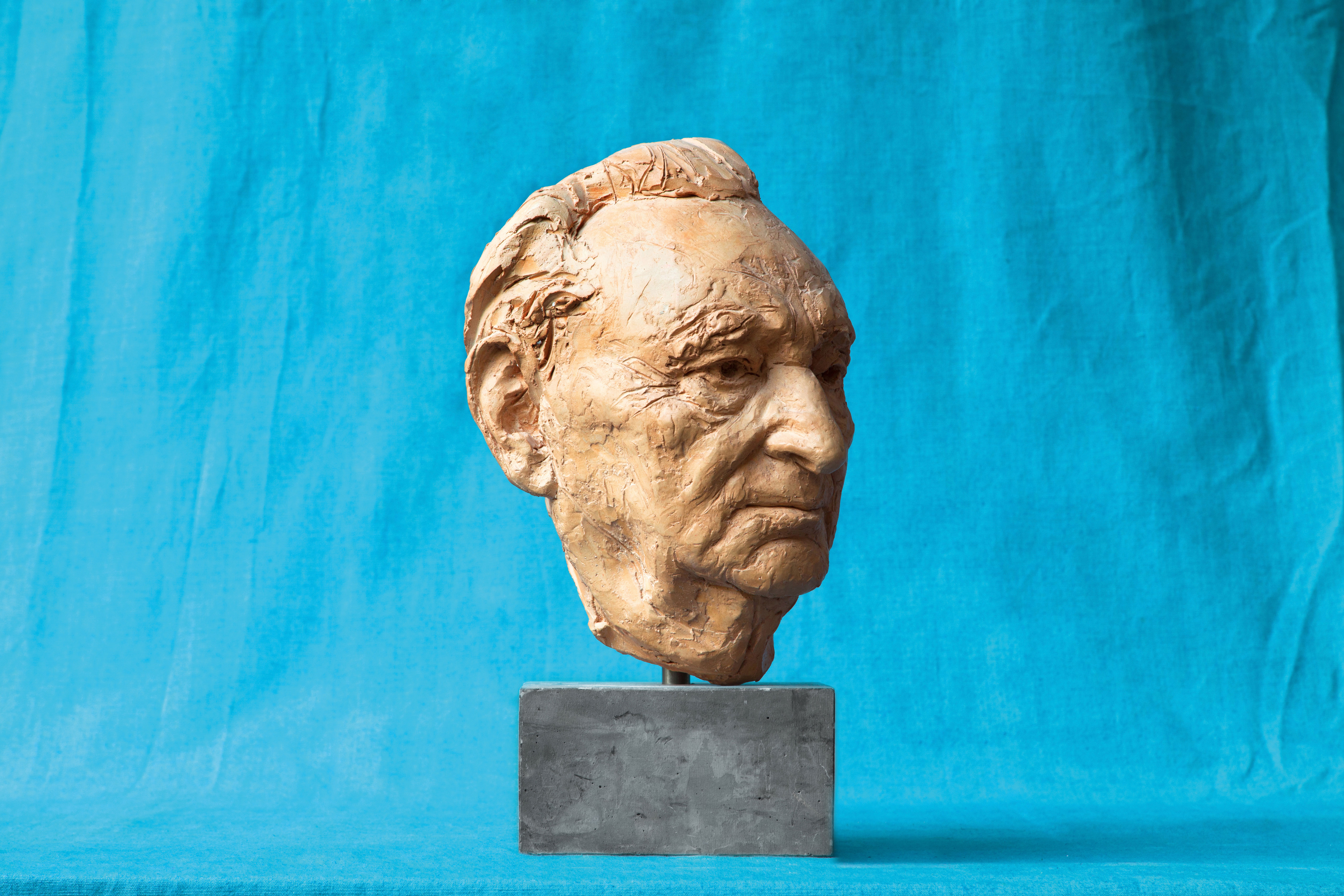 Bust of Egon Bahr by Bertrand Freiesleben